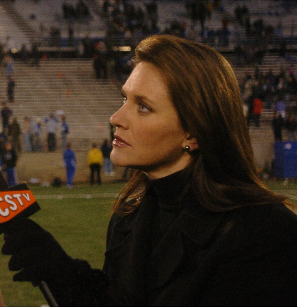 Cropped photo of Anne Marie Anderson